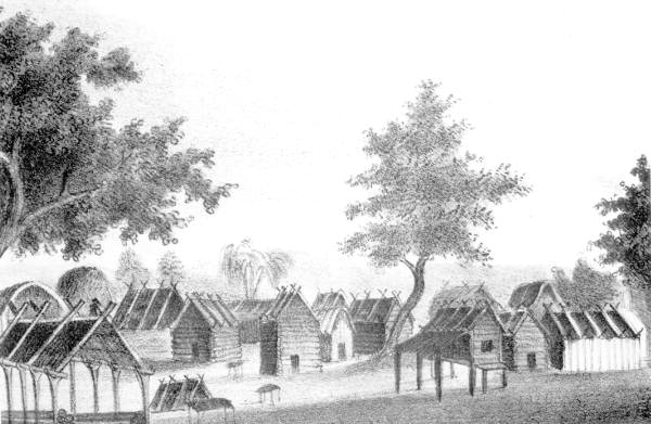 Creator T. F. Gray and James. Title[An Indian town, residence of a chief : Florida] [graphic] Publication Date1835. NoteLithographs of events in the Seminole War in Florida in 1835. Issued by T.F. Gray and James of Charleston, S.C., in 1837. URL Typestill image